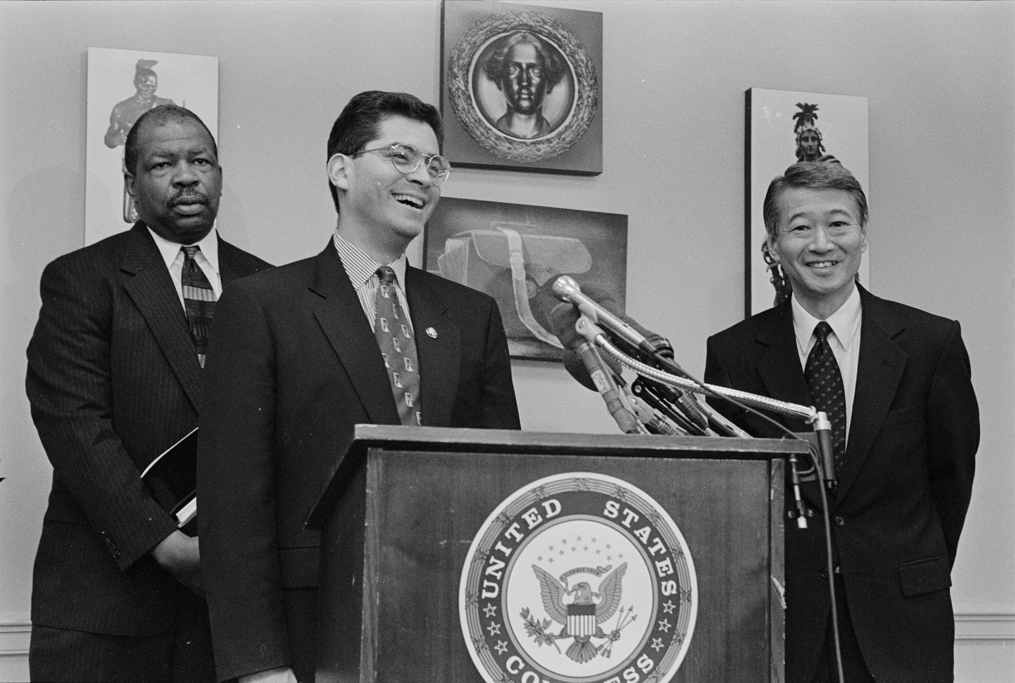 Representatives Xavier Becerra (speaking at podium), Robert Matsui (right) and Elijah Cummings at a press conference on civil rights